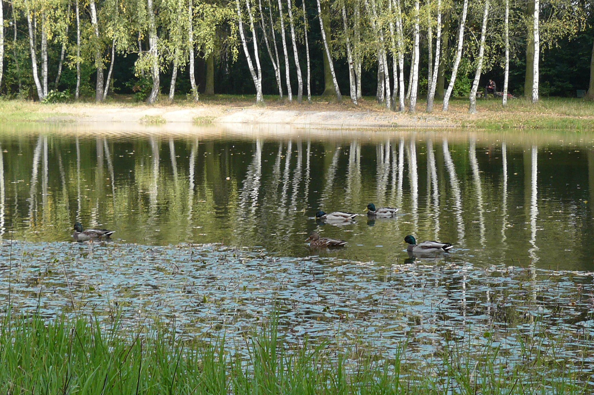 Pond in Marcelinski Forest, Poznan.